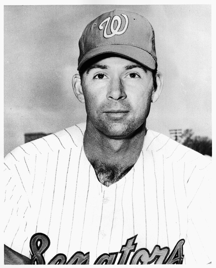 This shows pitcher Dave Baldwin in the Washington Senators uniform in spring training, 1968.